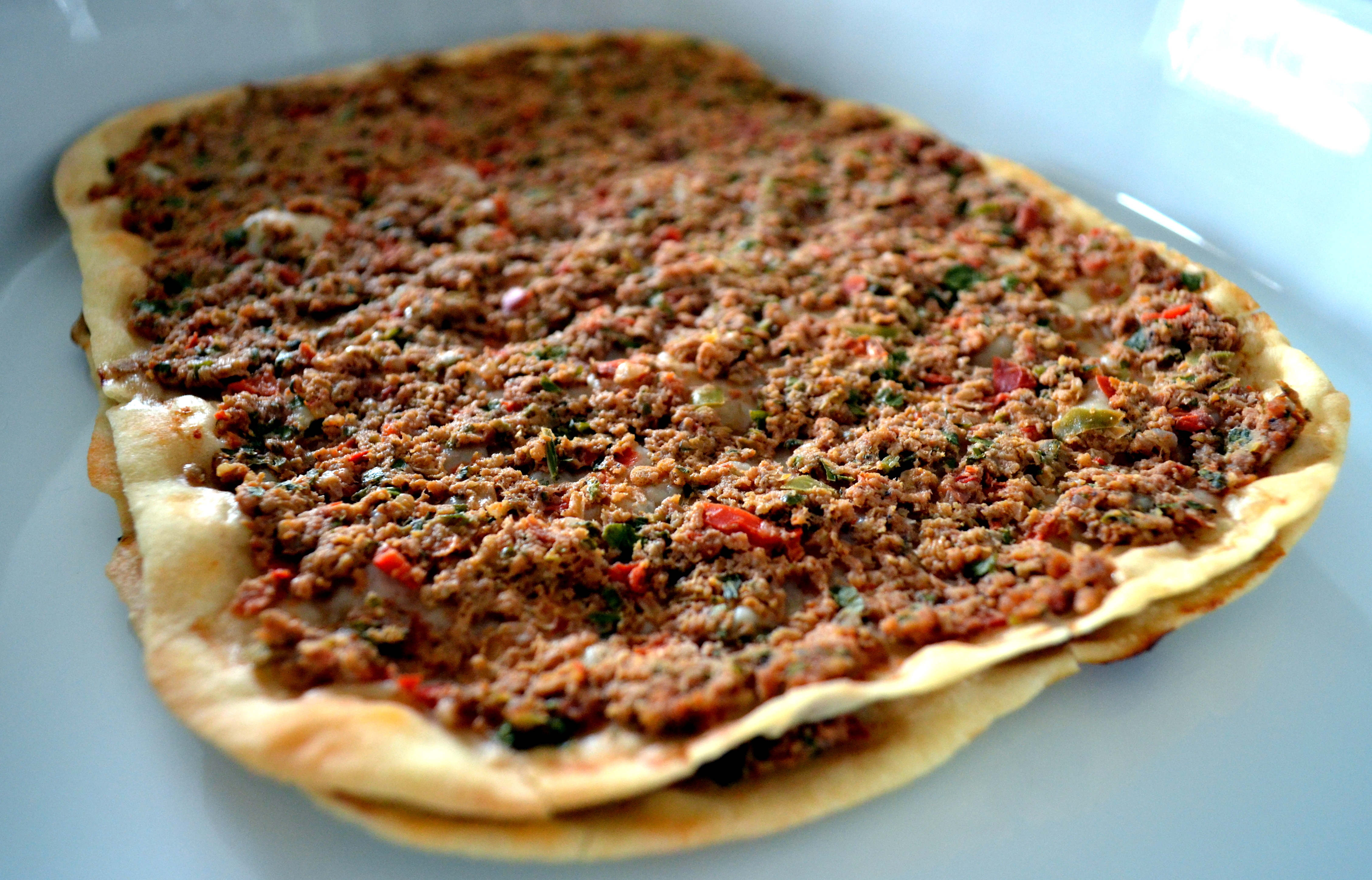 Armenian lahmacun.